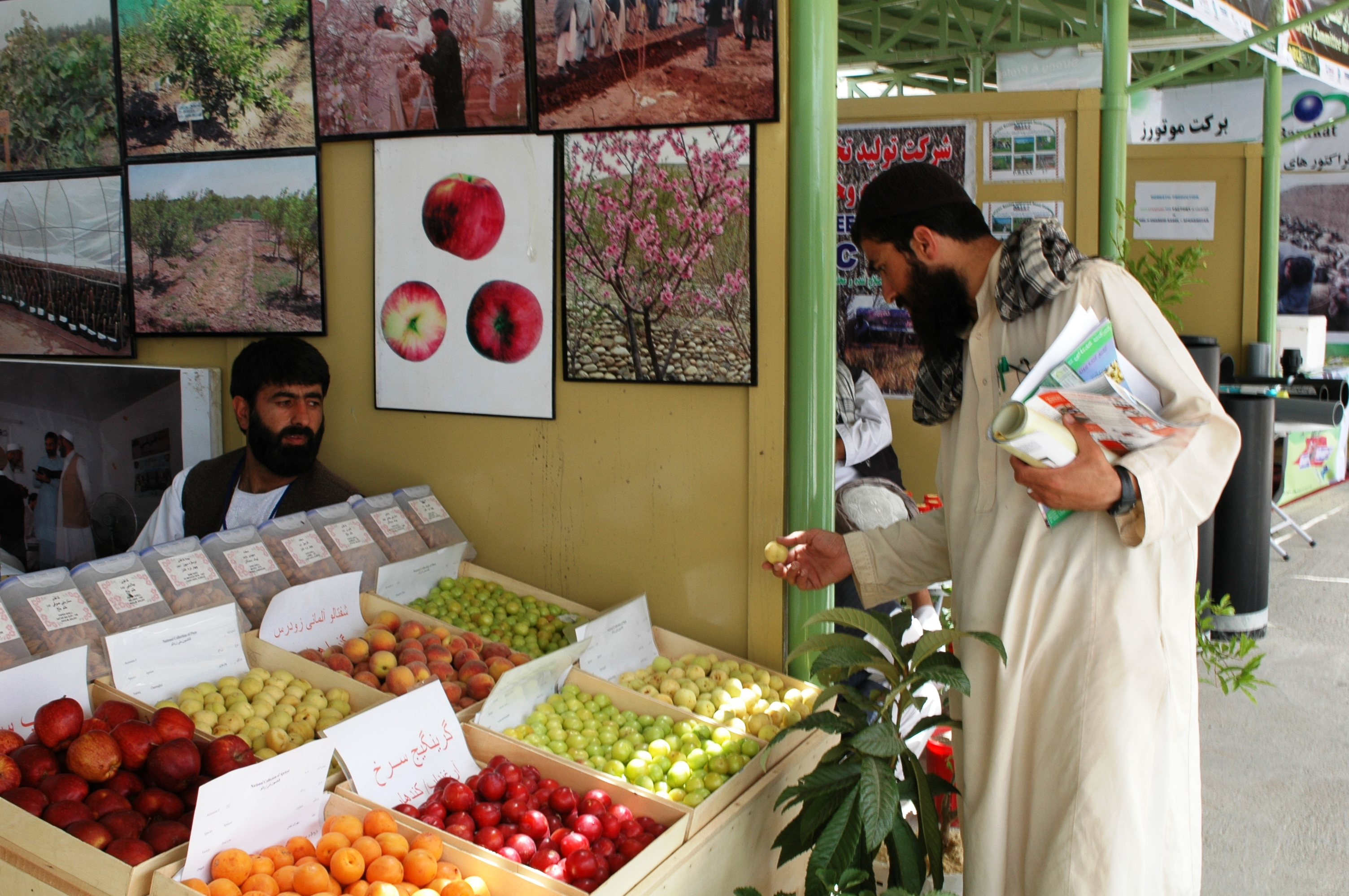 A fruit vendor at the Kabul International AgFair.